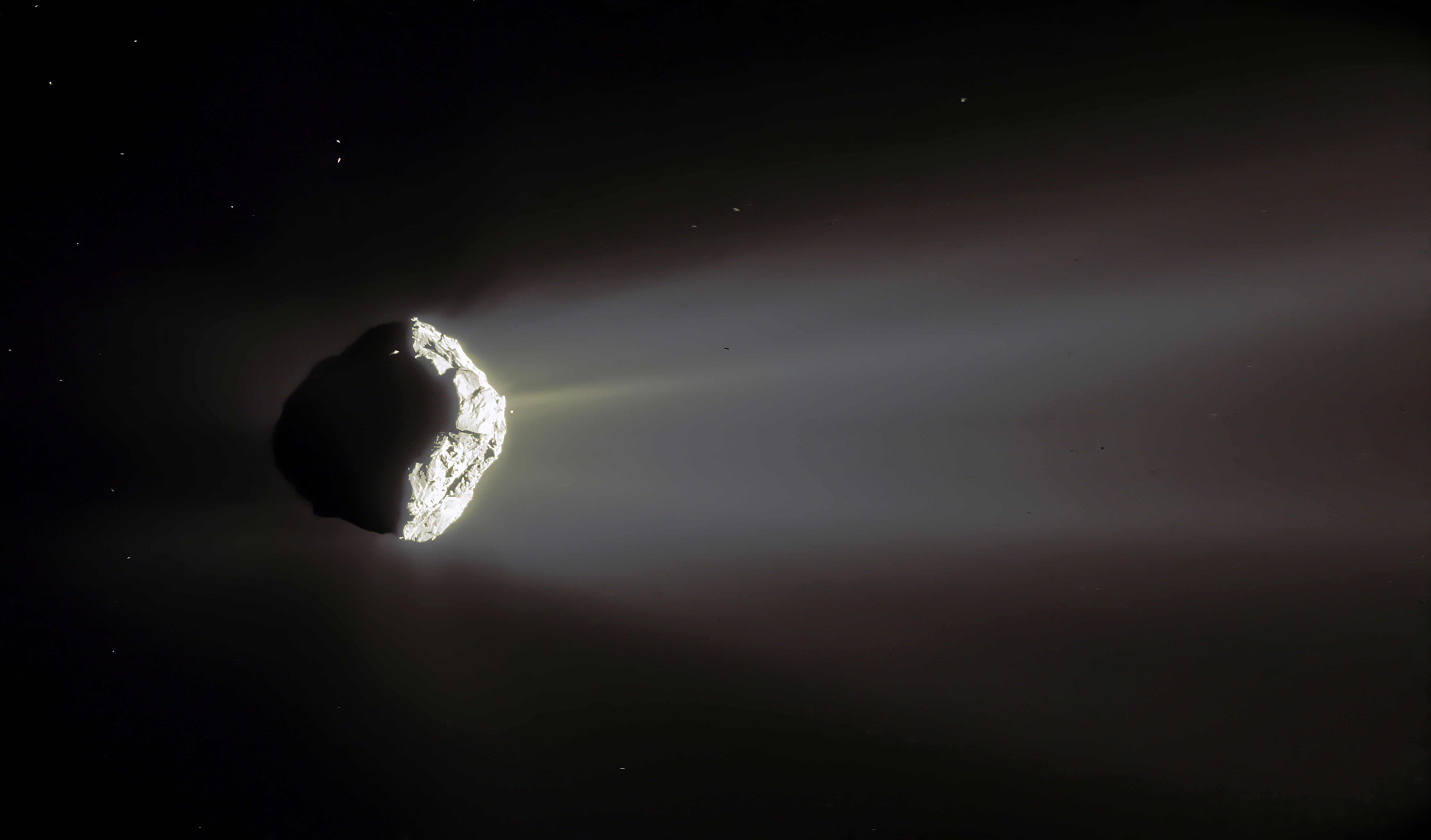 This single frame Rosetta navigation camera image of Comet 67P/Churyumov-Gerasimenko was taken on 15 April 2015 from a distance of 162 km from the comet centre. The image has a resolution of 14 m/pixel and measures 14 km across. This crescent phase has been rendered in false colours.